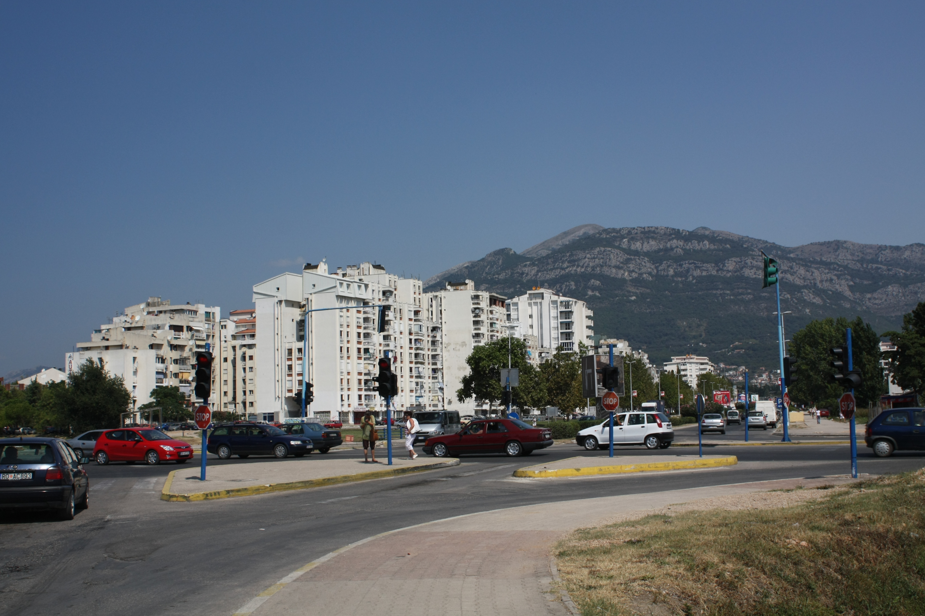 Bar, Montenegro - city centre